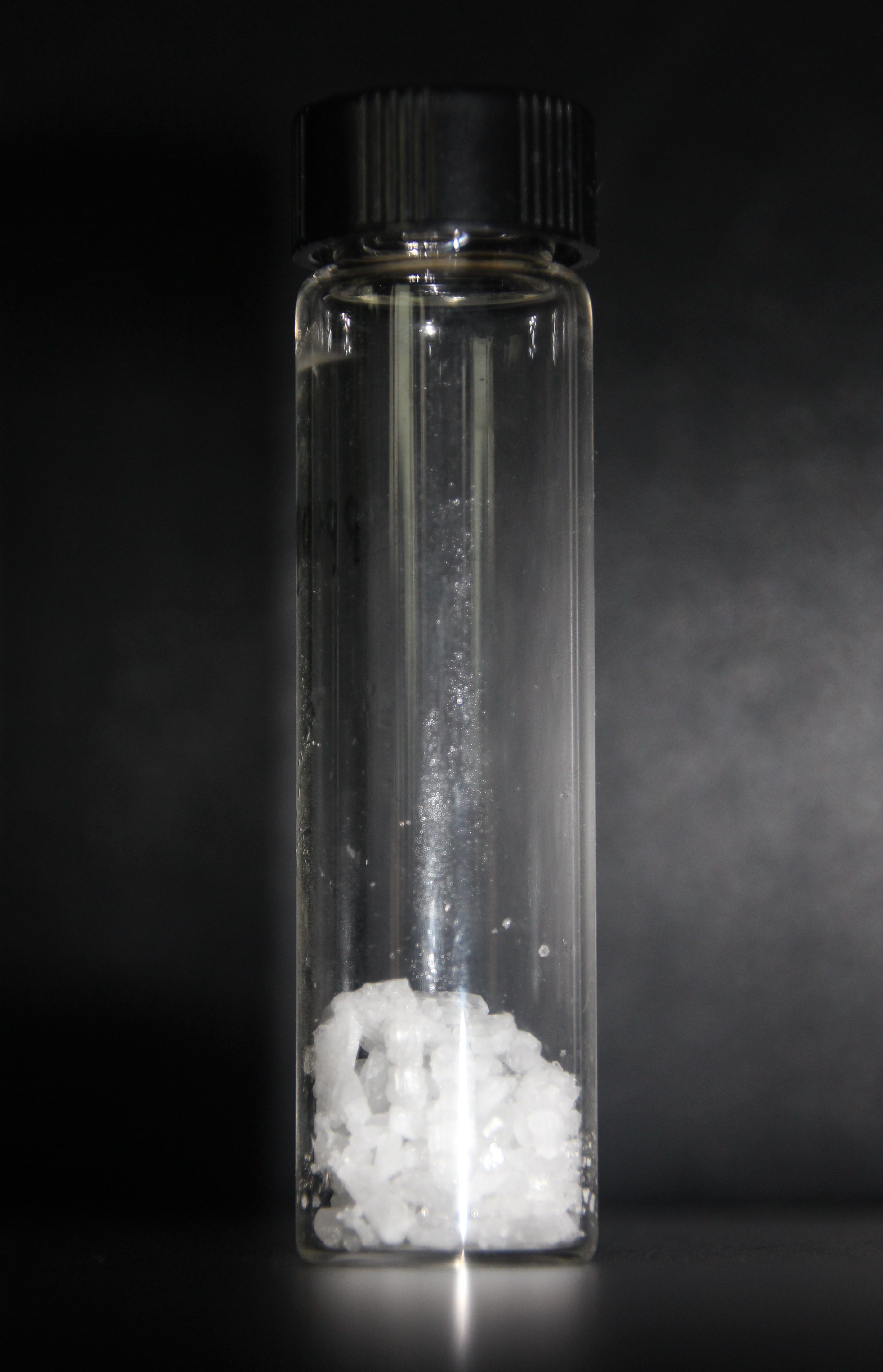 Sample of Triphenylphosphine oxide